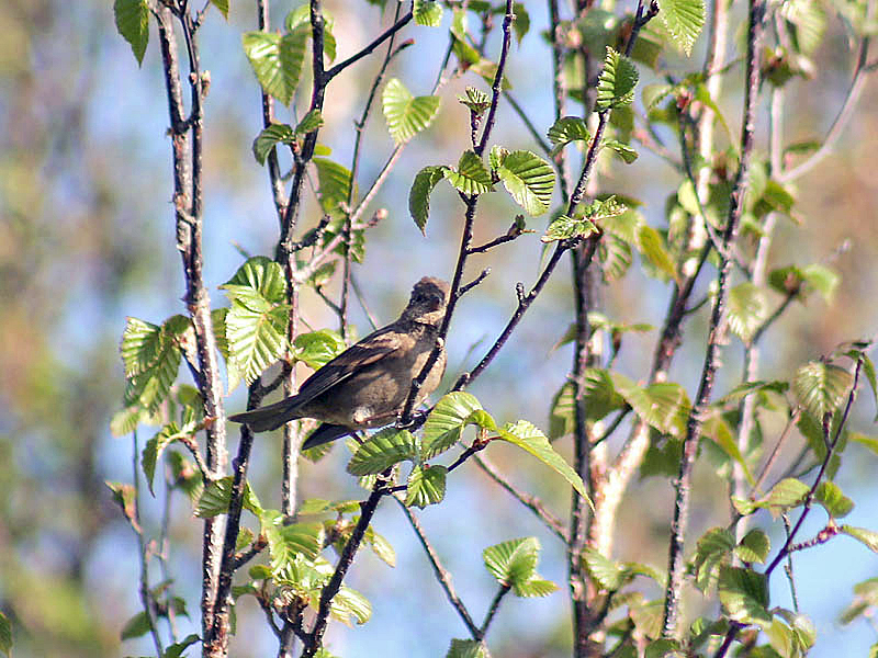 Dark-breasted Rosefinch Carpodacus nipalensis in Kullu District of Himachal Pradesh, India.